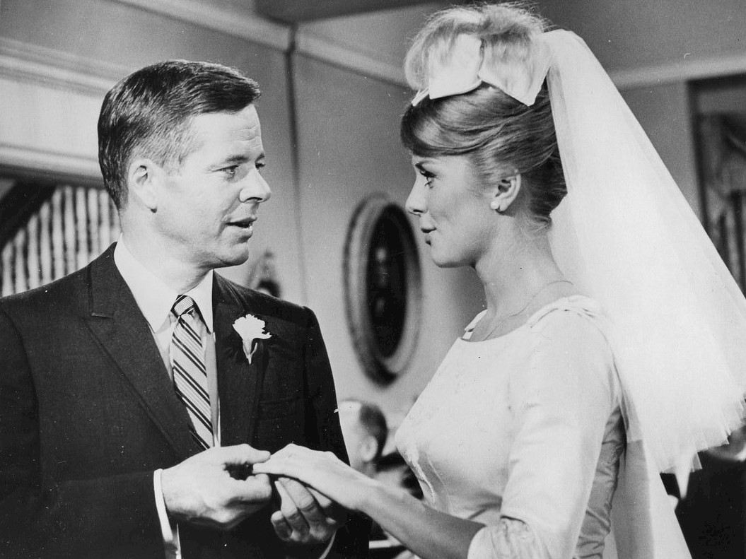 Photo of Inger Stevens and William Windom from The Farmer's Daughter. The marriage of Katie and Glen.